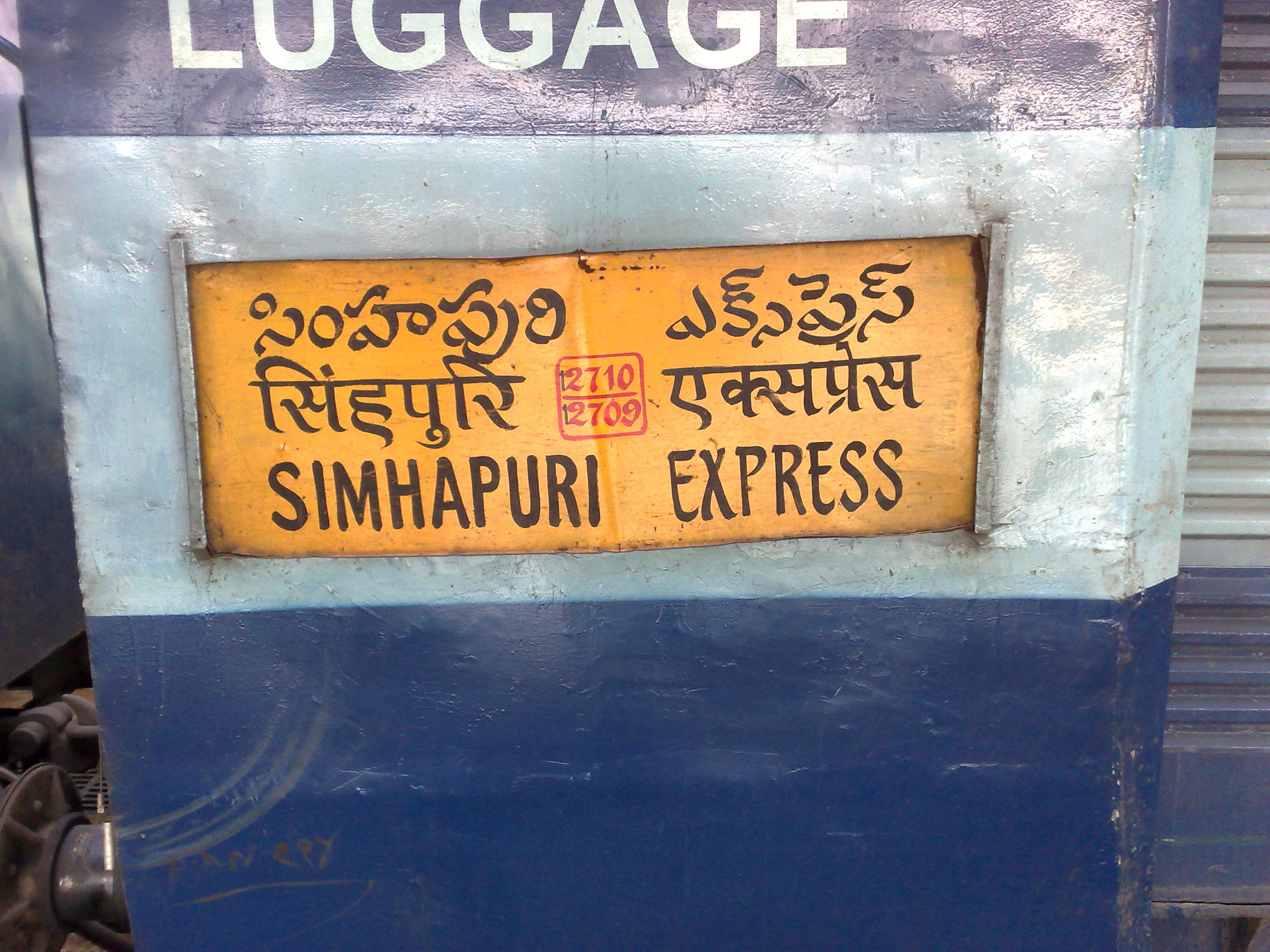 Simhapuri Express